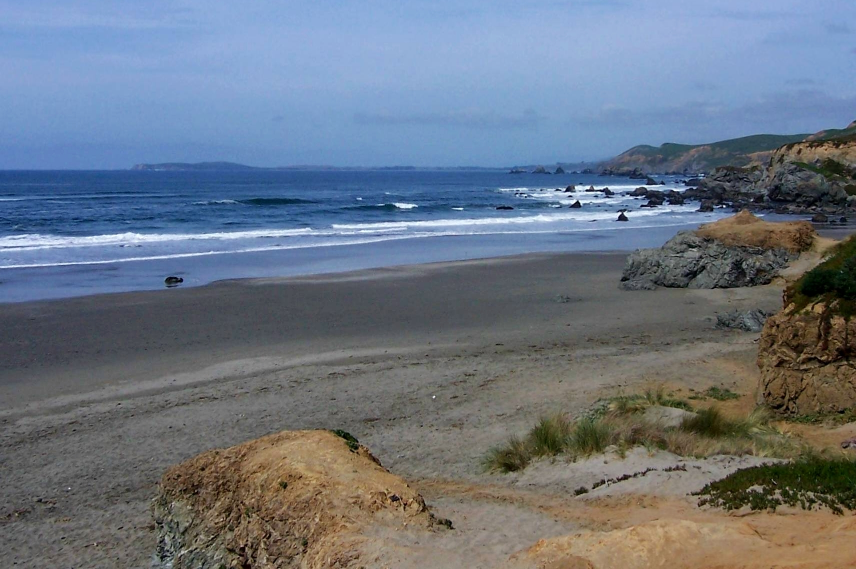 Bodega Bay viewed from Dillon Beach, CA in Marin County.